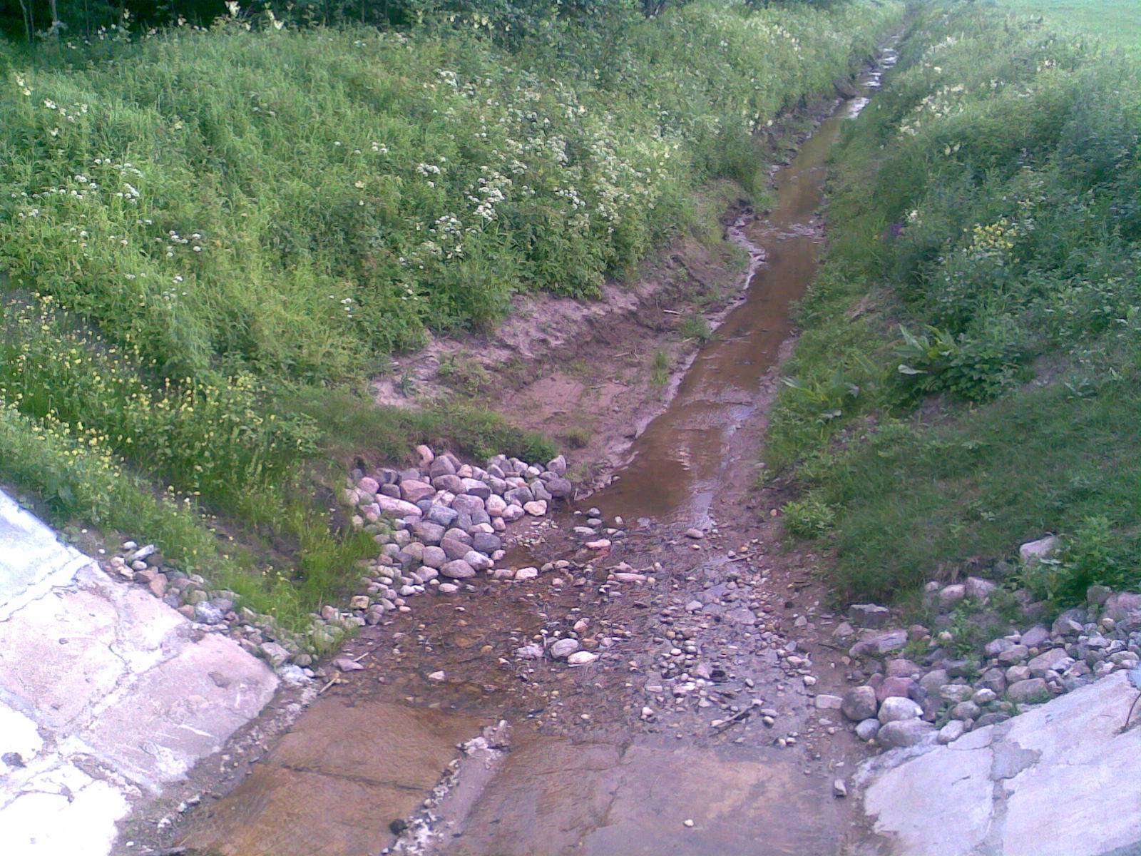 Lietava (Lietauka) river, Jonava district